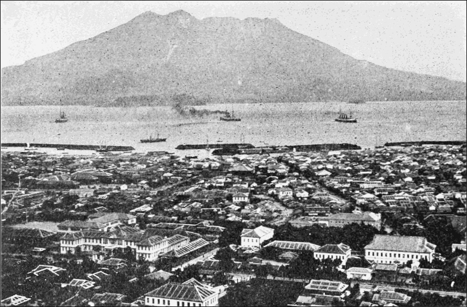 One of the most active volcanoes Sakurajima in south of japan